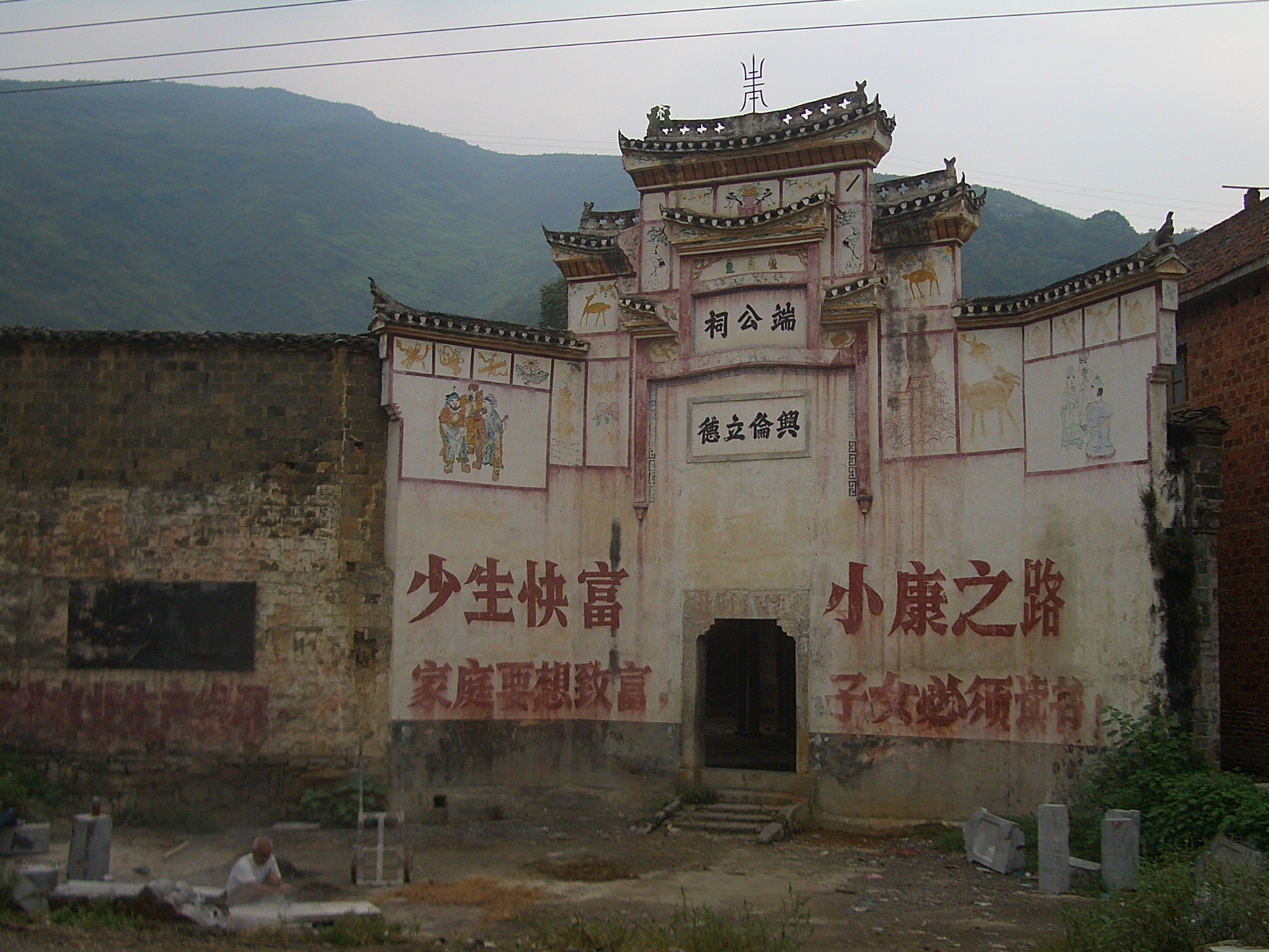 "Duan Gong Ci", a temple under renovation just south of Xinwupu village in Yangxin County. (Next door to the former "Lenin School of South-Eastern Hubei", also apparently housed in a former temple}. The red-letter slogans promote "少生快富" ("Get rich quick by having fewer children" - some policy to reward parents of smaller families), as well as healthcare and education.